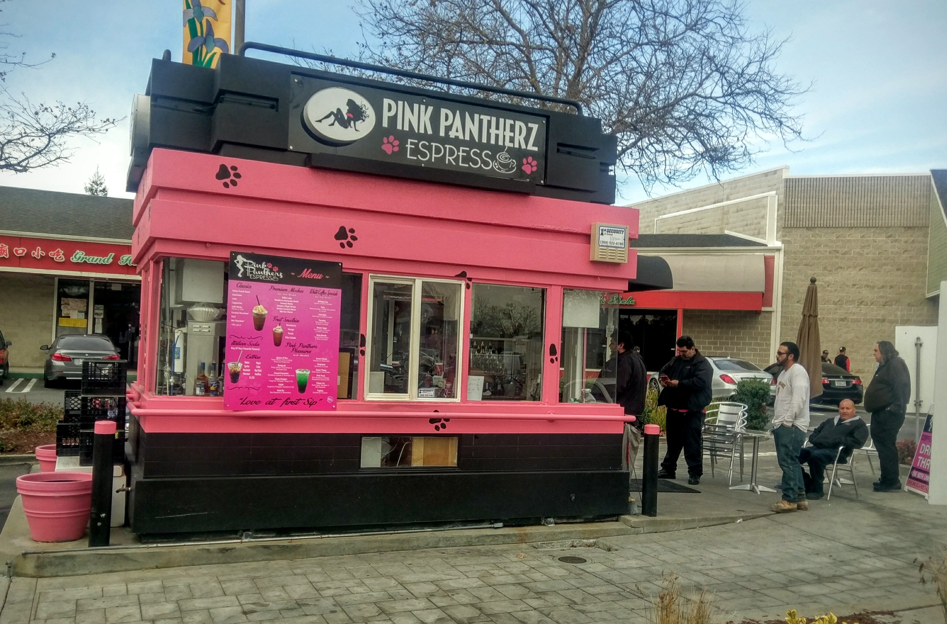 A Pink Pantherz espresso stand in Fremont, California. Photo by Jim Heaphy.